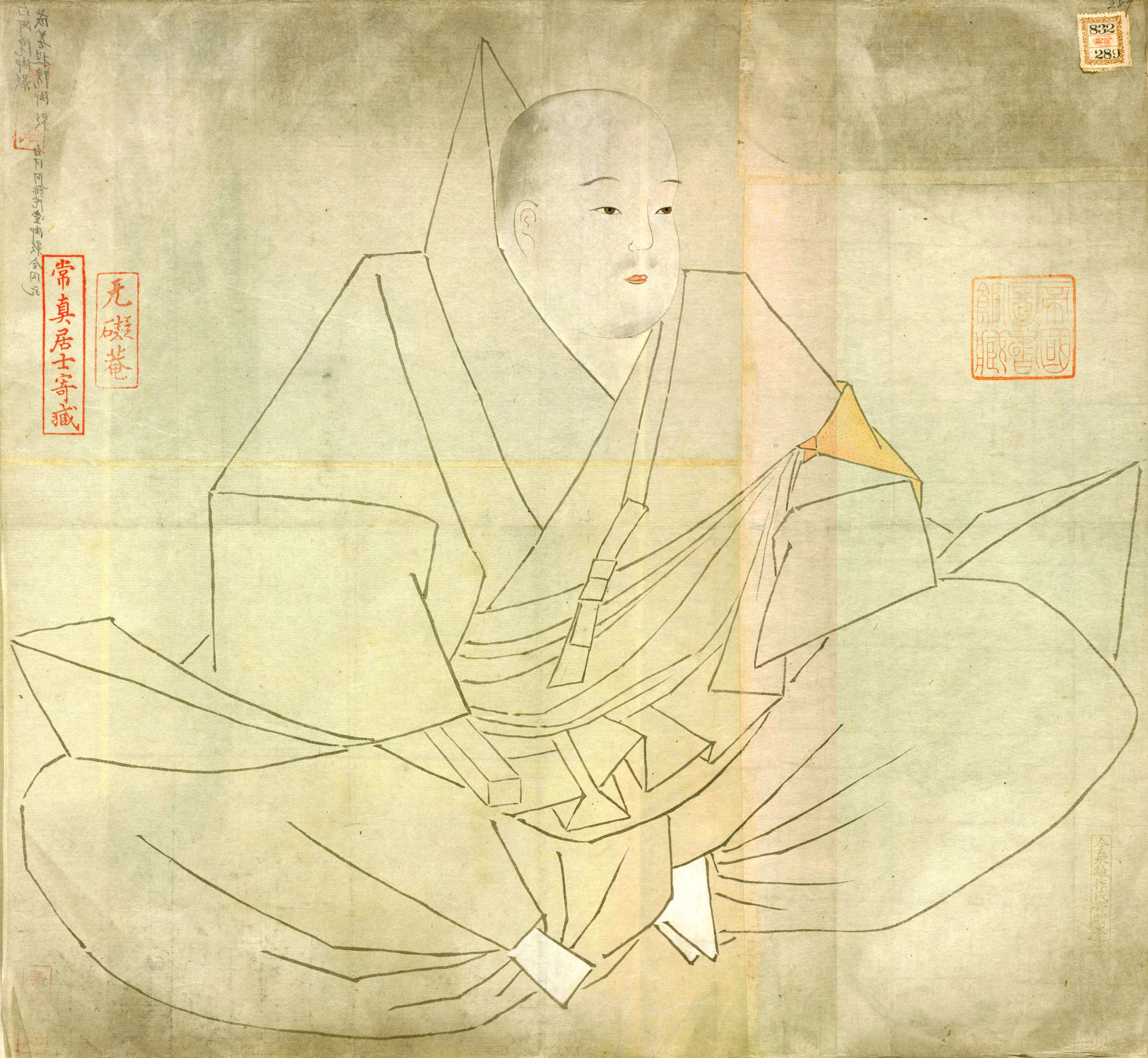 Portrait of the Emperor Shirakawa